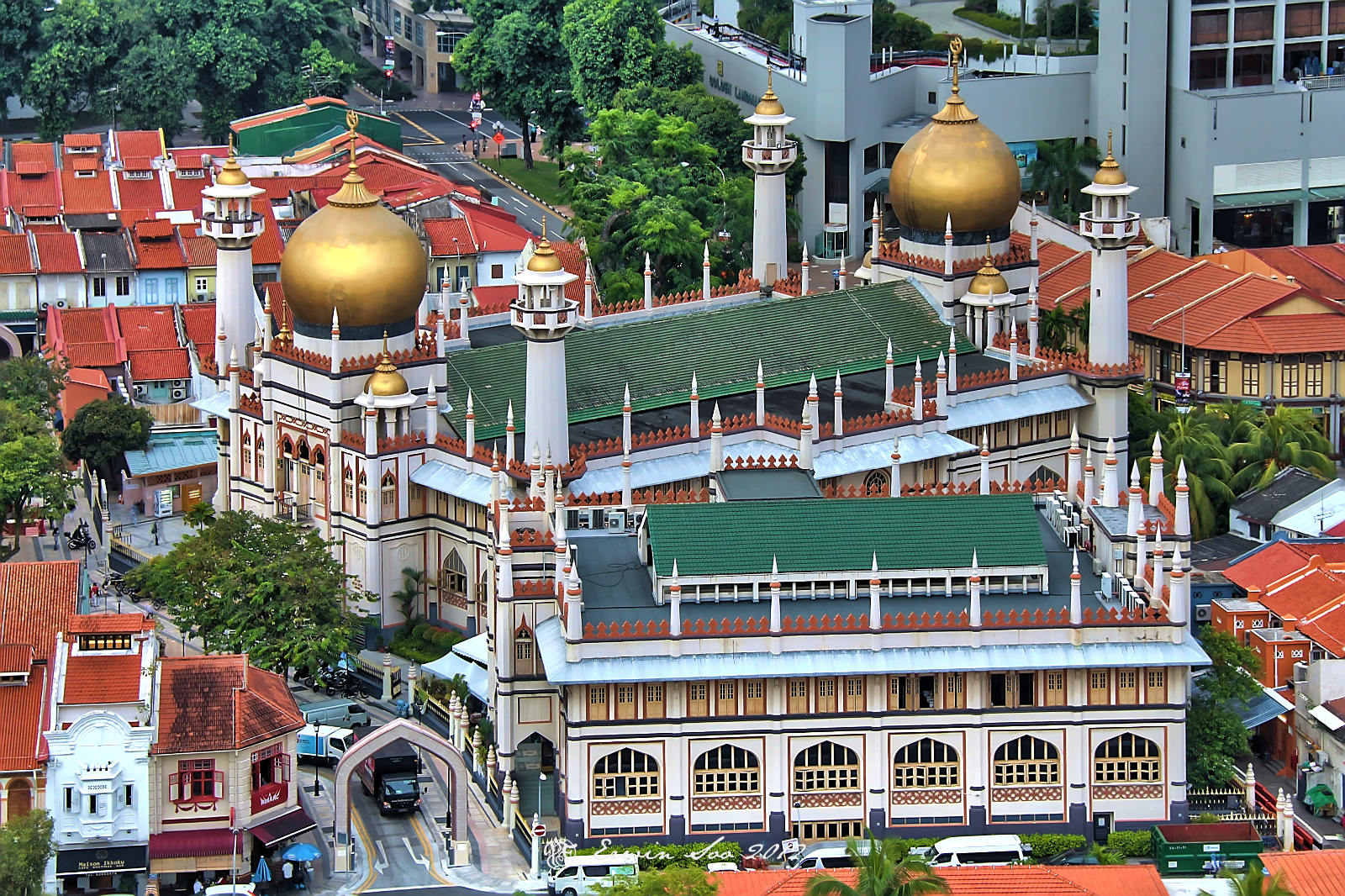 Masjid Sultan (Jawi: مسجد سلطان ;Malay for Sultan Mosque; is located at Muscat Street and North Bridge Road within the Kampong Glam district of Rochor Planning Area in Singapore. The mosque is considered one of the most important mosques in Singapore. The prayer hall and domes highlight the mosque's star features.